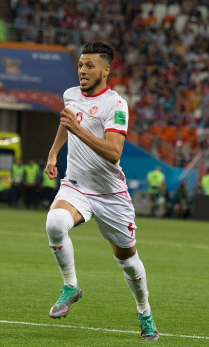 Anice Badri